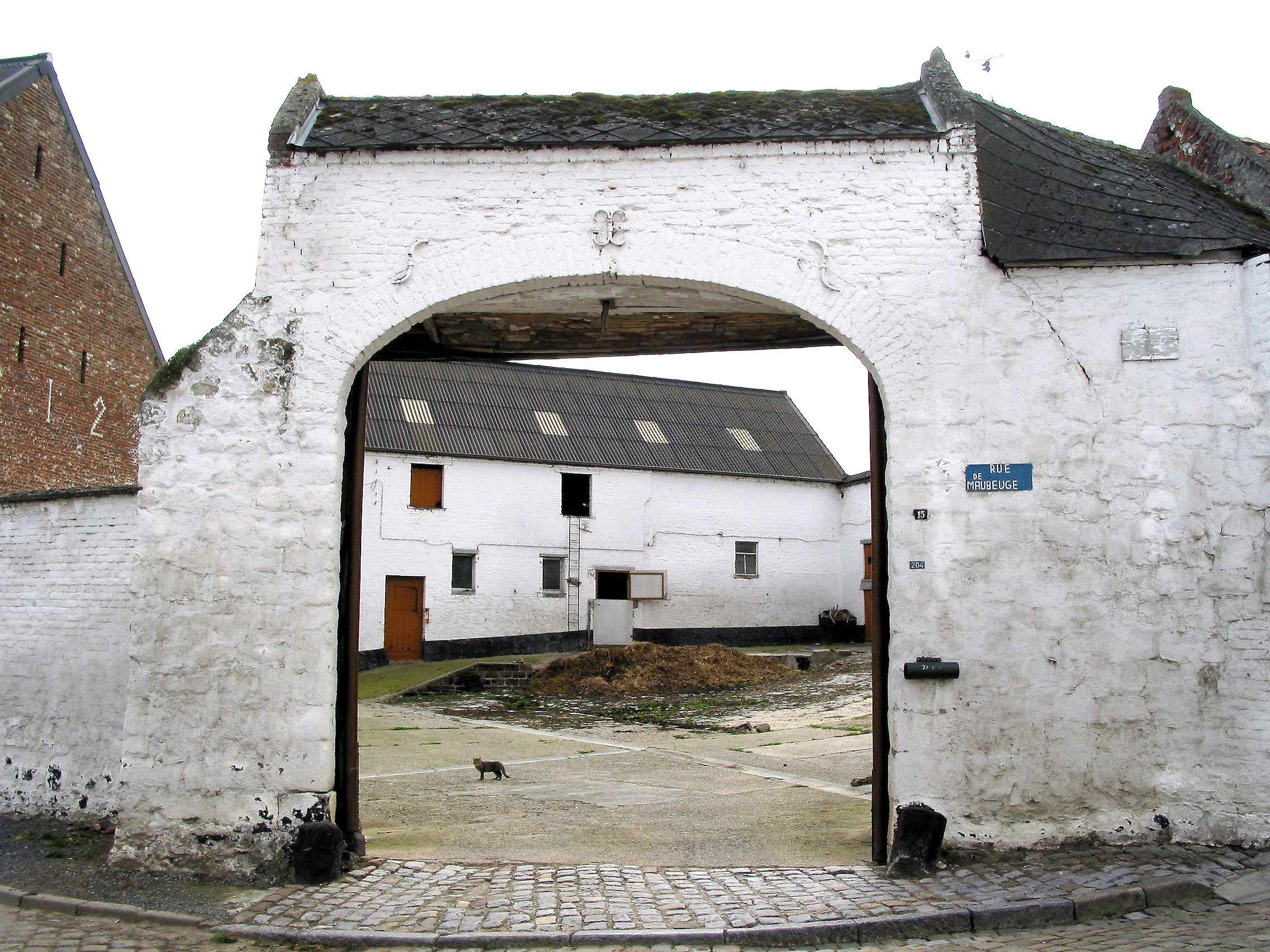 Estinnes-au-Val (Belgium), rue de Maubeuge, 15 - The Plumet Farm (1812)